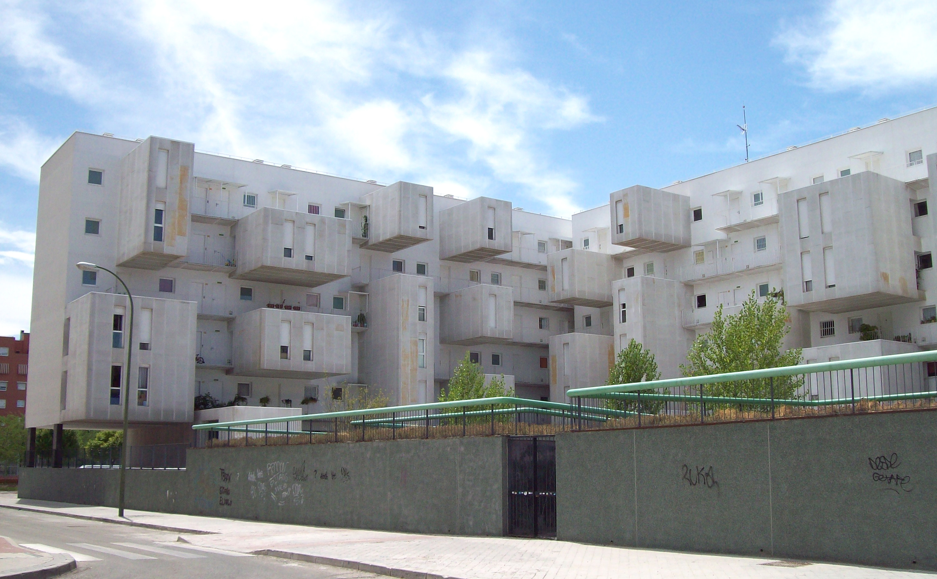 View of Carabanchel 20 building in Carabanchel district in Madrid (Spain) from the north-east angle.